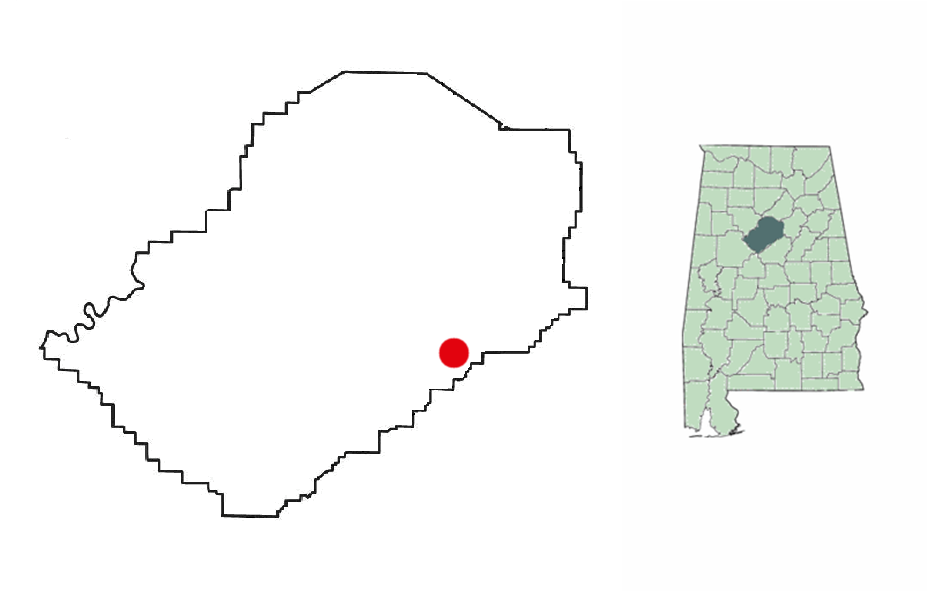 This is a map showing the location of Mountain Brook, Alabama USA. It illustrates the location of Mountain Brook within Jefferson County and the county within Alabama.